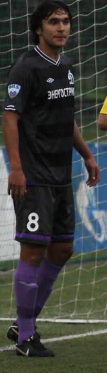 Azat Bairyyev with FC Dynamo Bryansk.